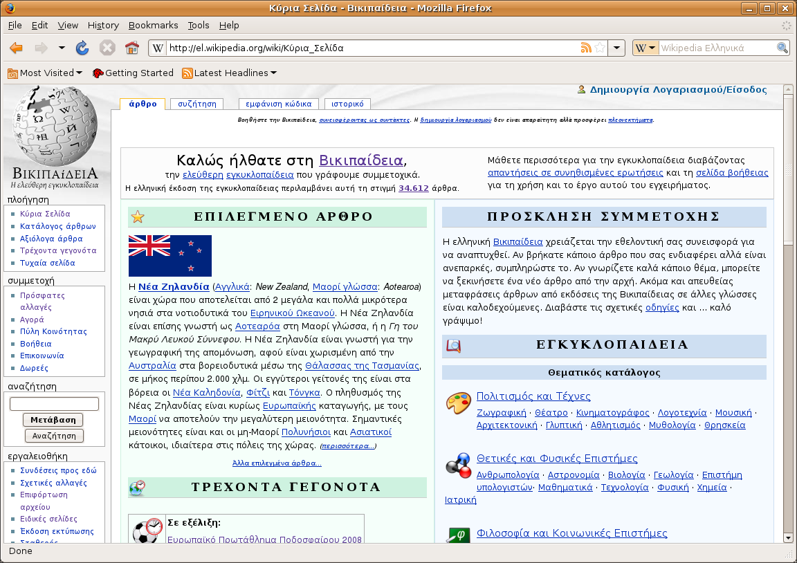 Greek Wikipedia Main Page viewed with Mozilla Firefox on Ubuntu-Gnome